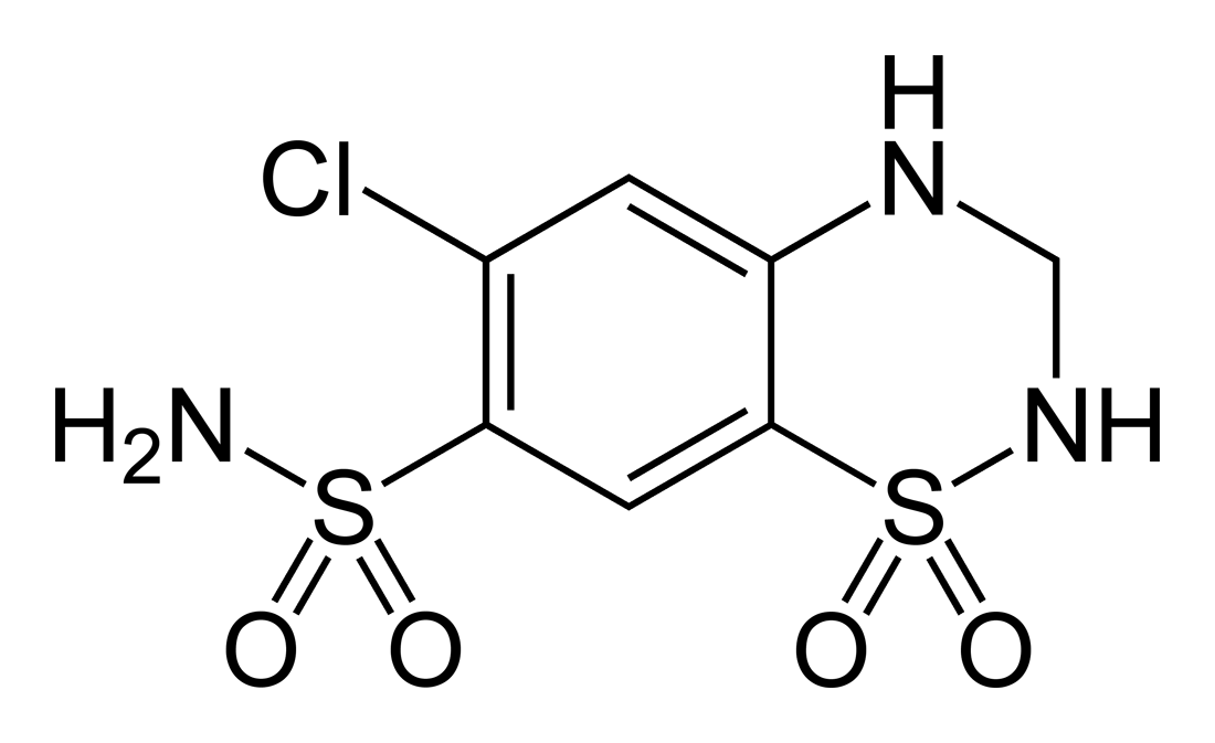 Skeletal formula of hydrochlorothiazide